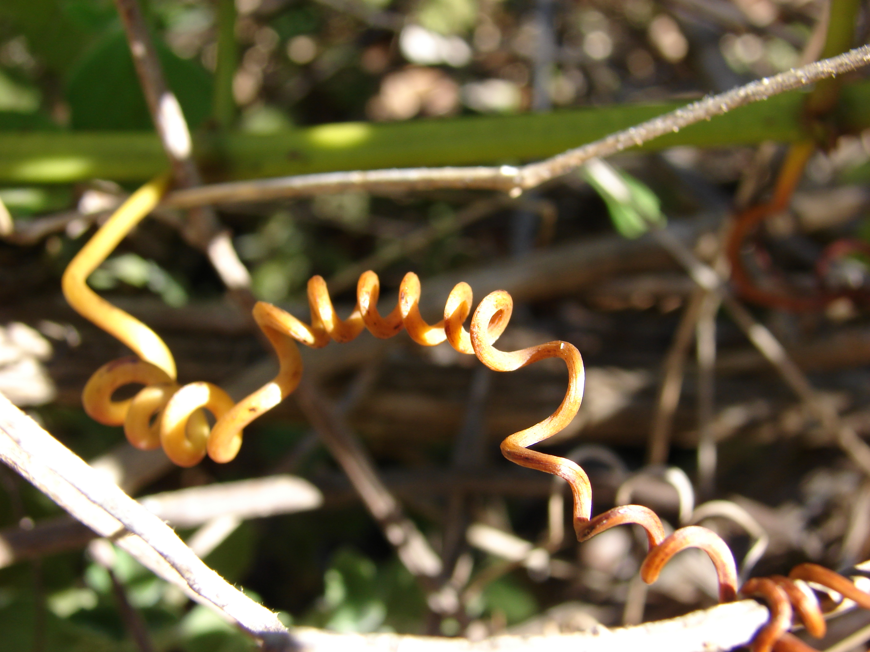 Cissus nodosa (tendril). Location: Maui, Enchanting Floral Gardens of Kula